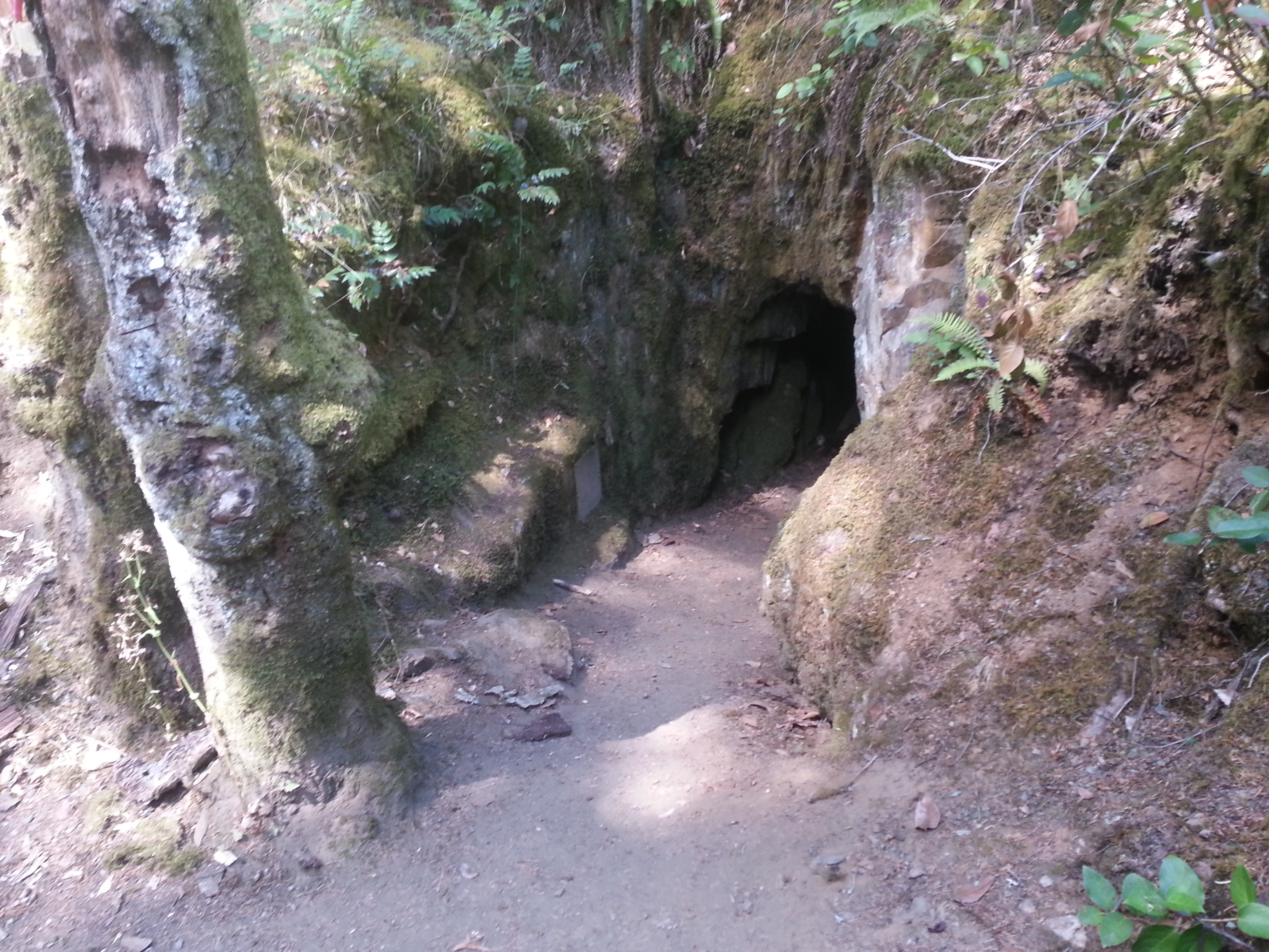 Entrance to abandoned gold mine in Goldstream park leftover from a short lived gold rush at Goldstream, just outside of Victoria, British Columbia in 1863.